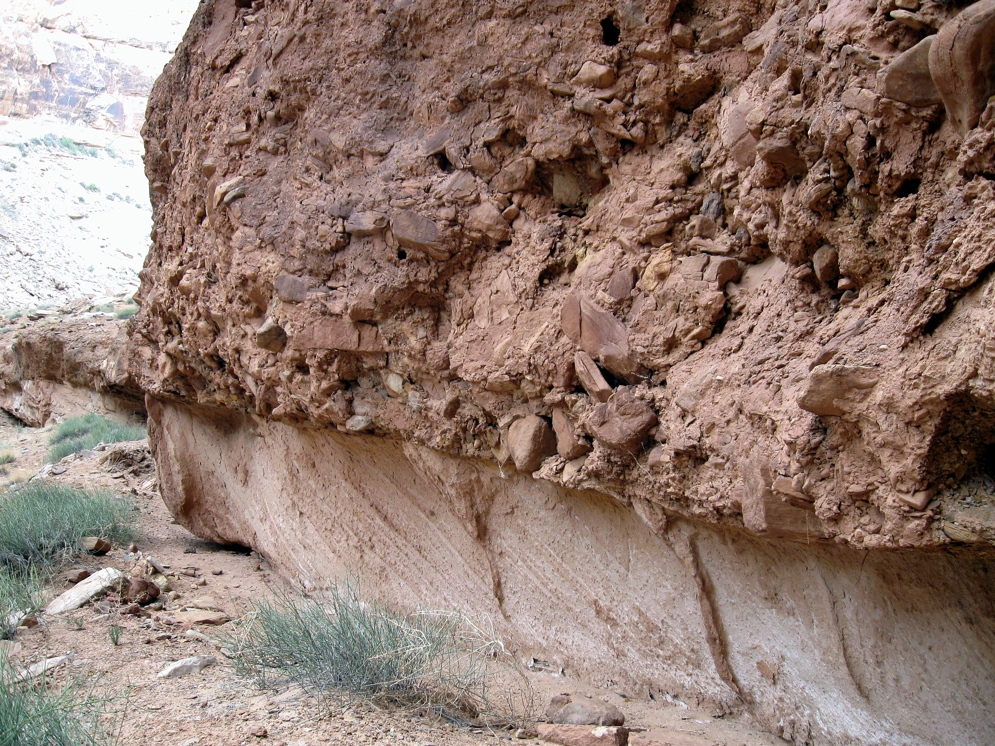 Appears to be clastic dikes injected downward, beneath debris flow deposit in Black Dragon Canyon, San Rafael Swell, UT.